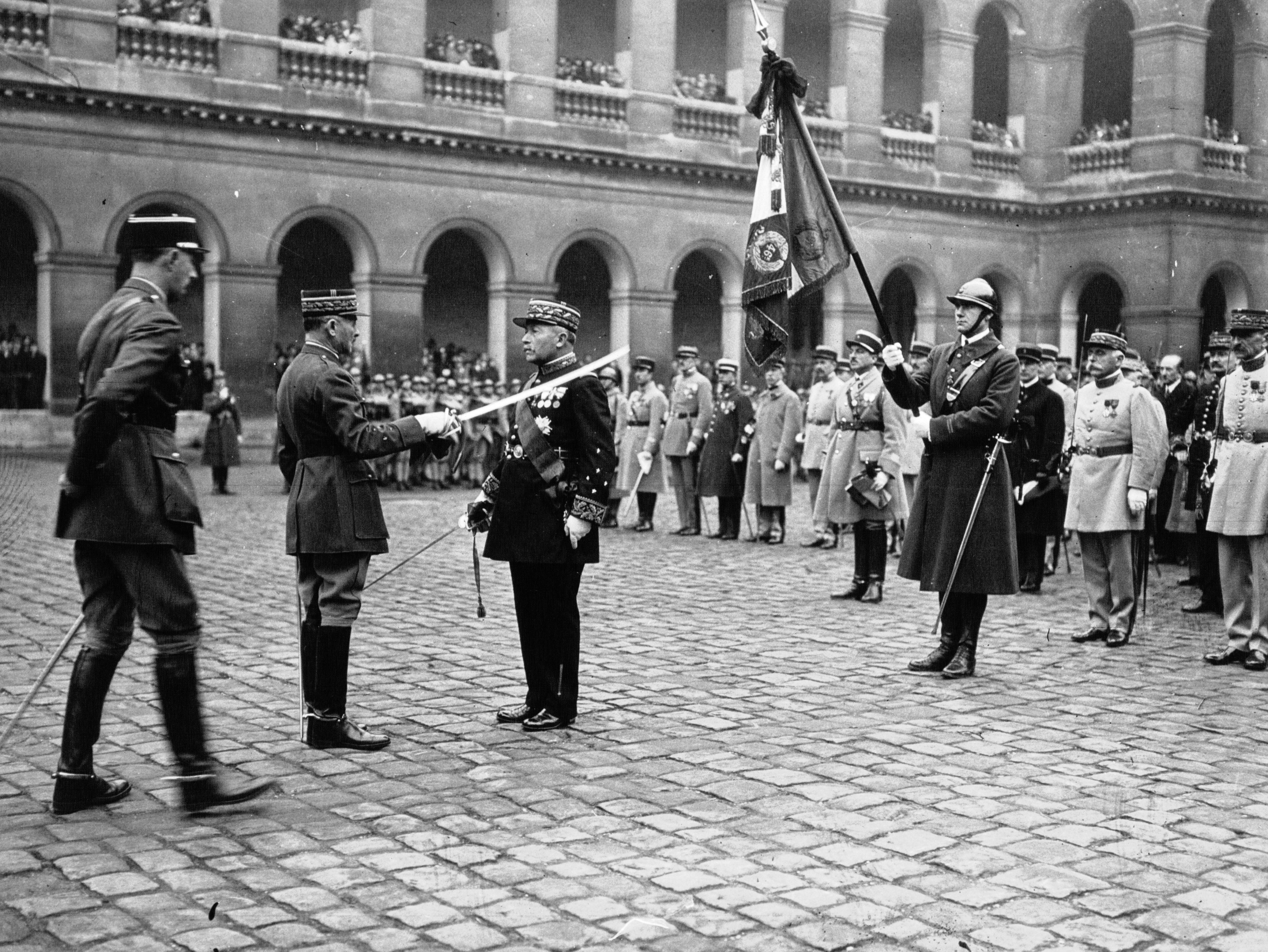 General Maxime Weygand decorating general Stanislas Naulin in 1932.